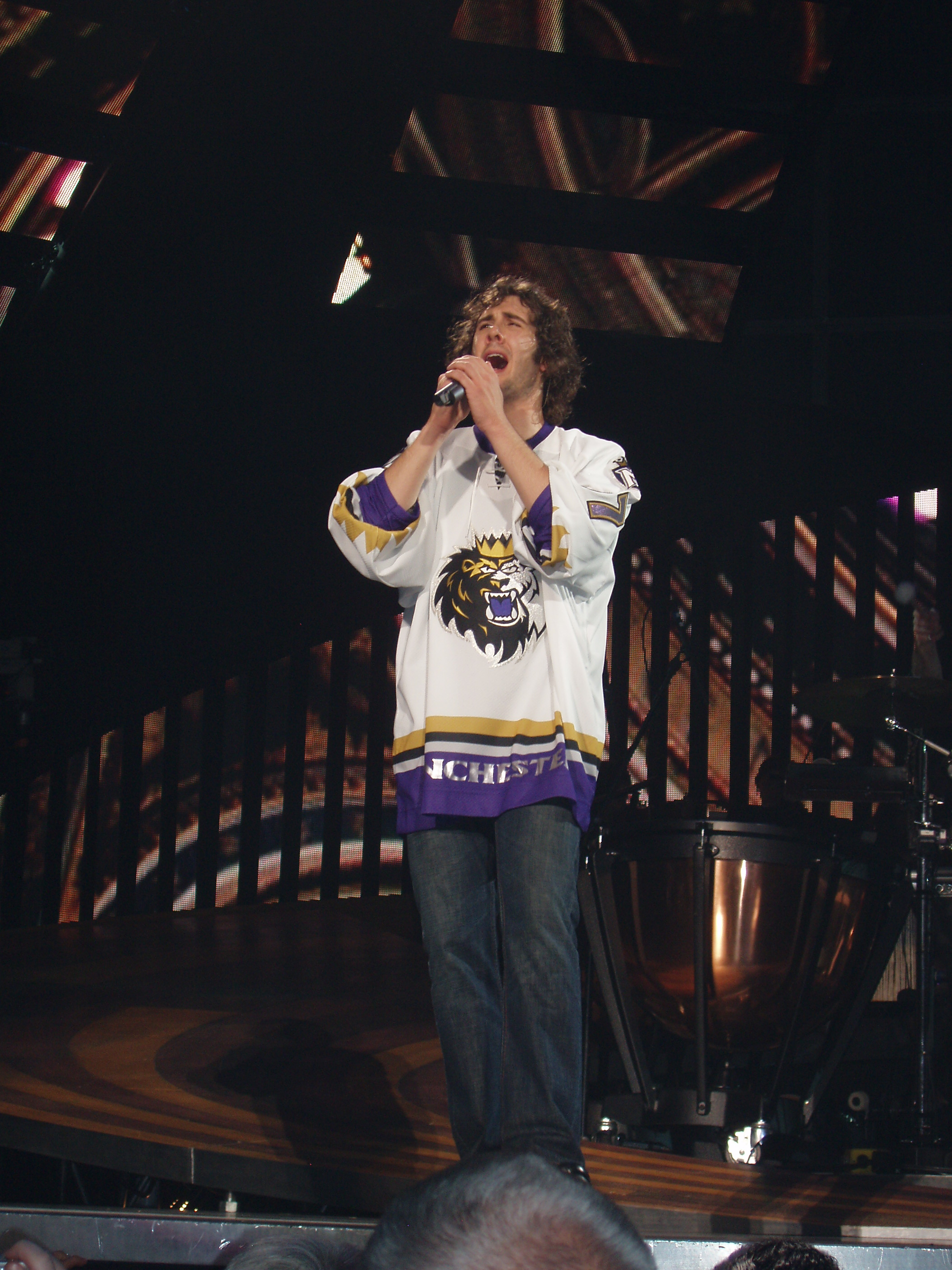 Josh Groban in concert at the Verizon Wireless Arena in Manchester, NH. He is wearing a Manchester Monarchs hockey jersey.